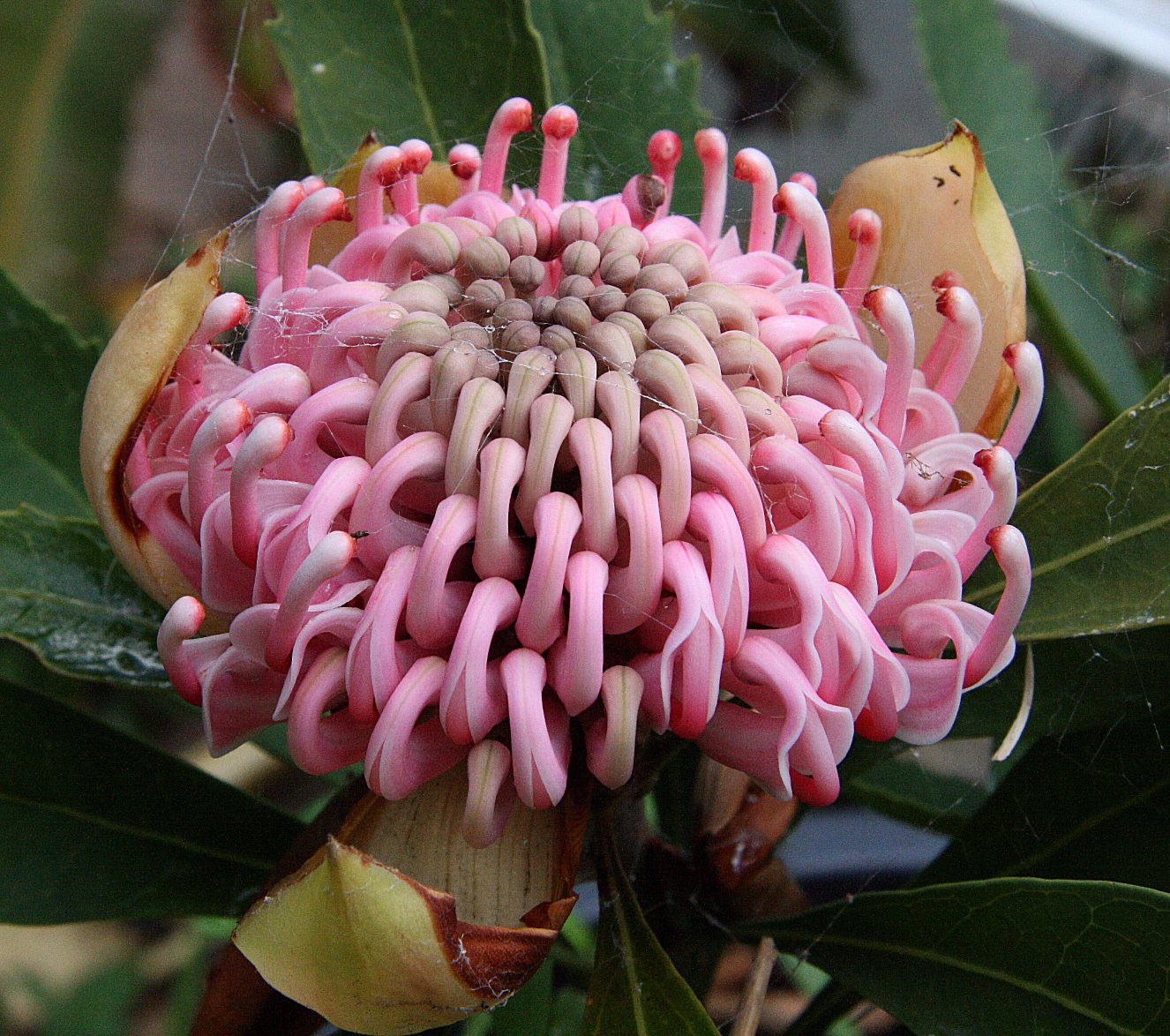 Telopea Shade of Pale - my garden